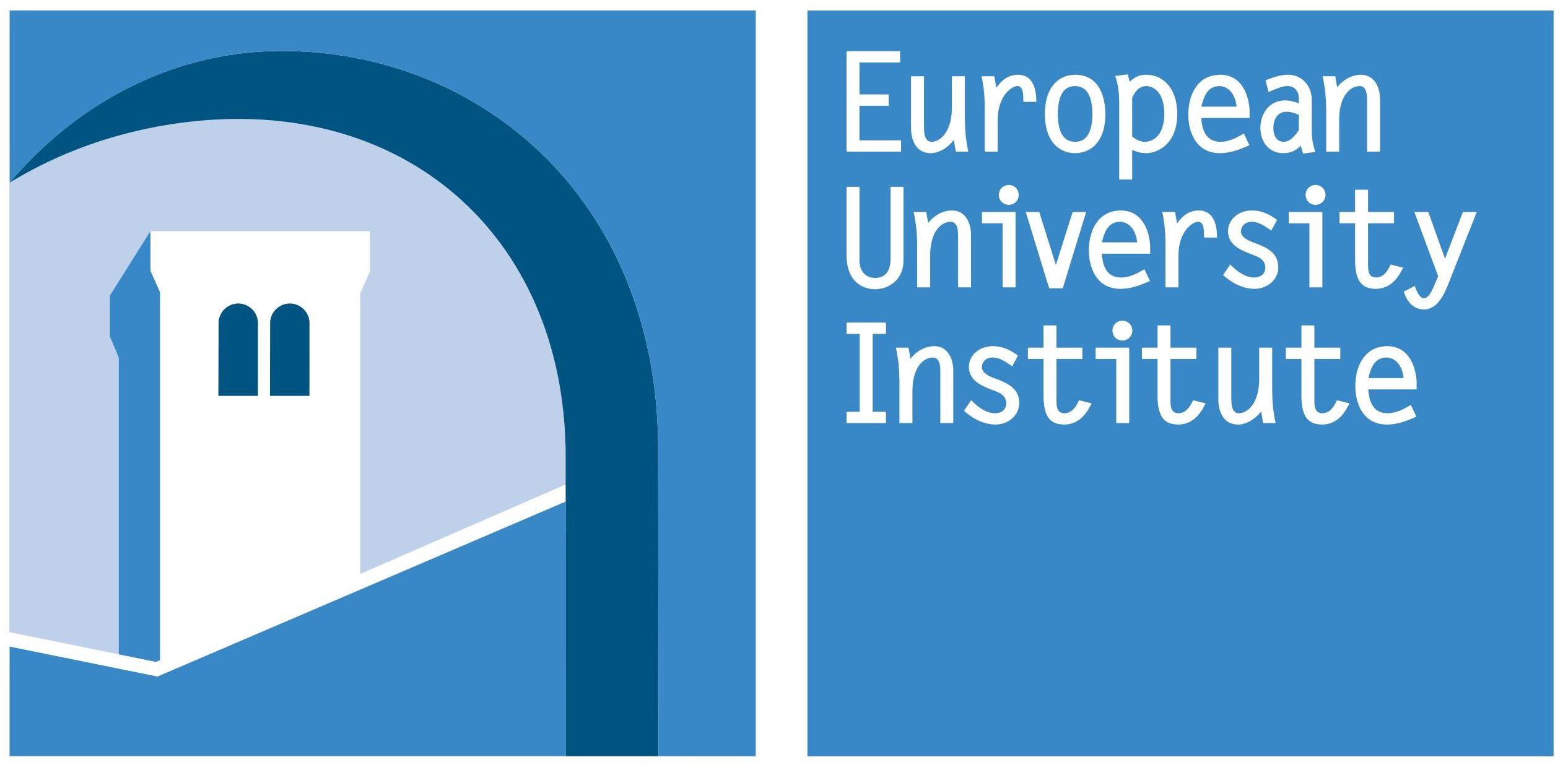 European University Institute Logo